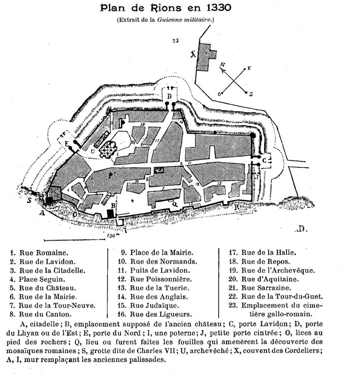 Plan of Rions (Gironde, France)